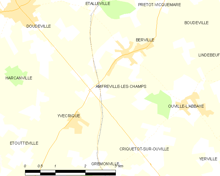 Map of French municipality Amfreville-les-Champs